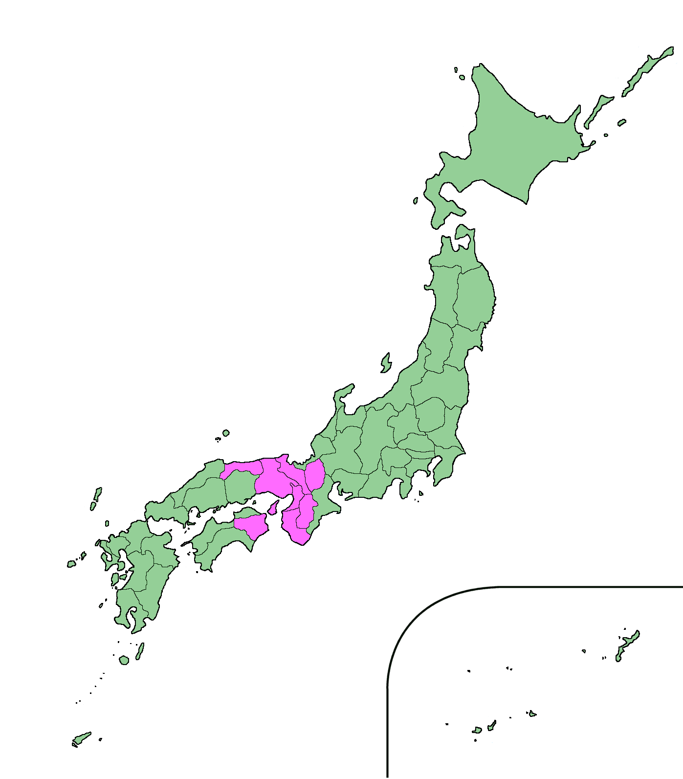 Large size map of Japan with Union of Kansai Governments highlighted, self made but originally based on Image:Japan large.png.